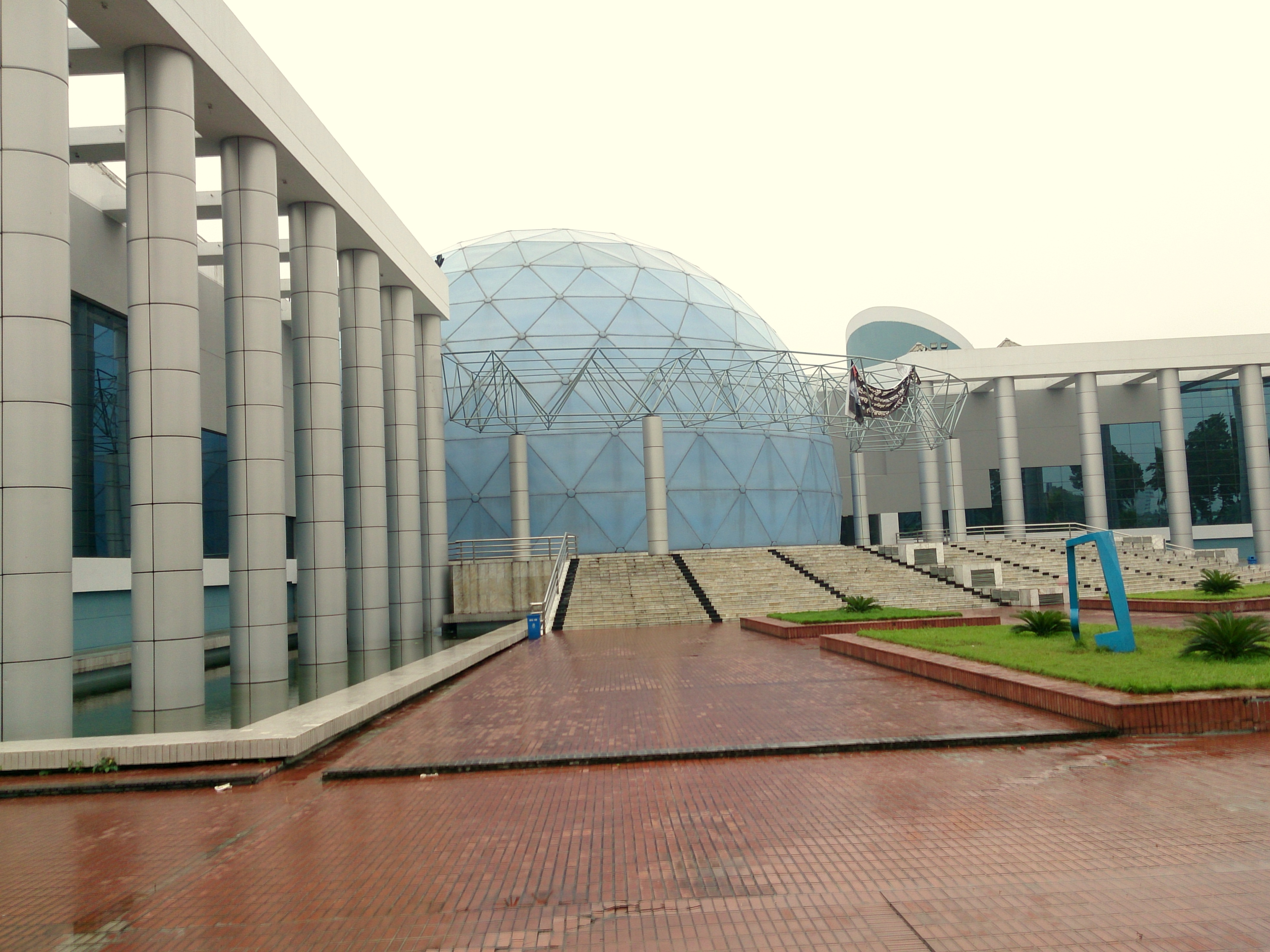 Bangabandhu Sheikh Mujibur Rahman Novo Theatre, Dhaka.